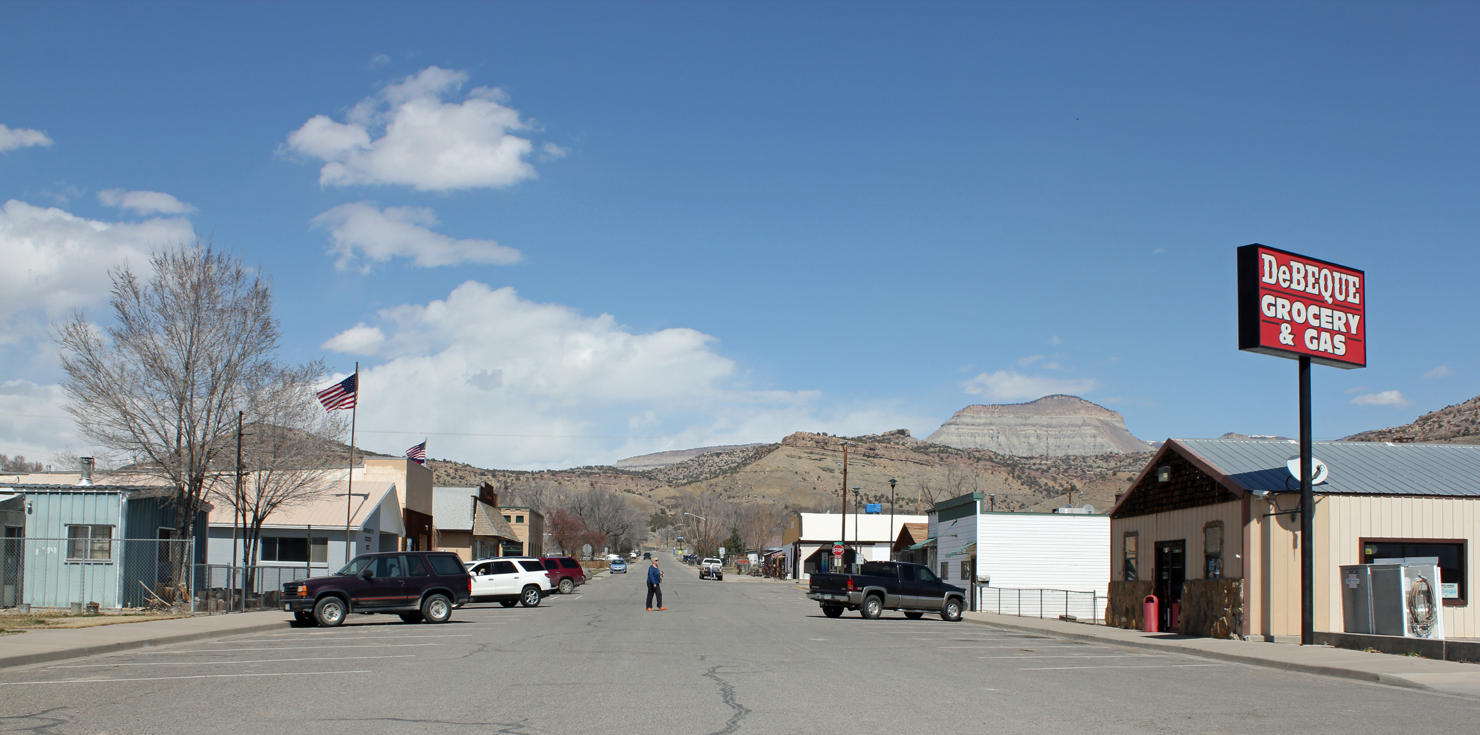 Miner Avenue in De Beque, Colorado.